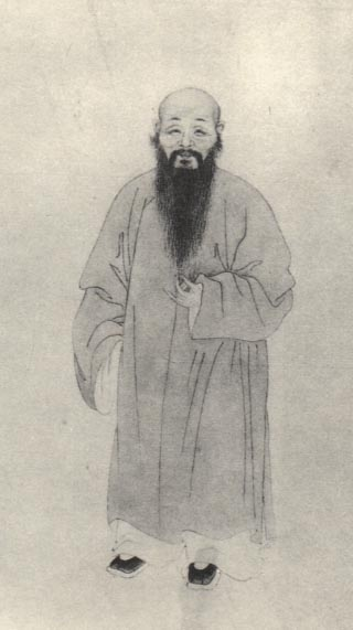 He Zhuo, scholar of the Qing Dynasty.